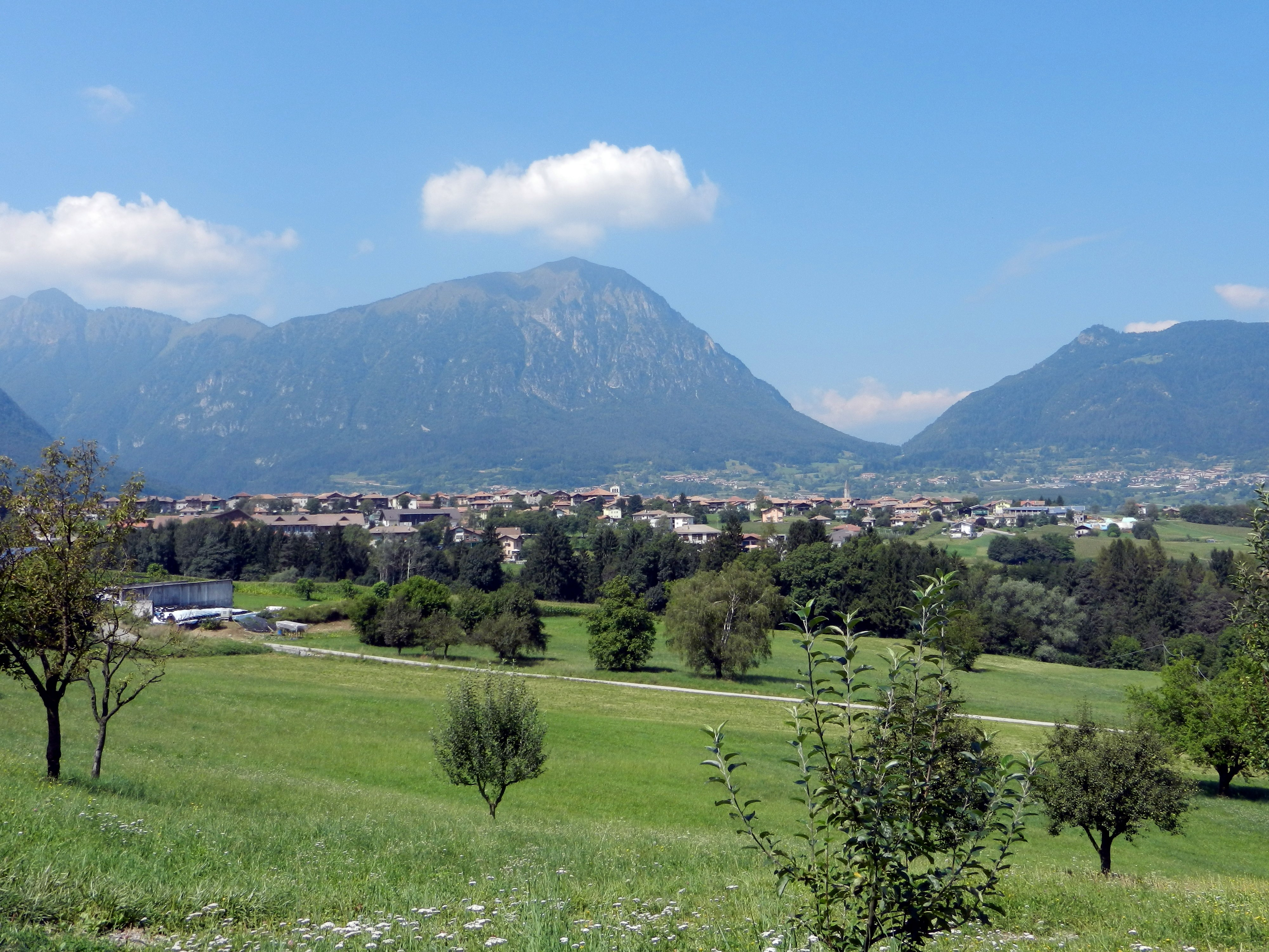 Fiavè viewed from Favrio.